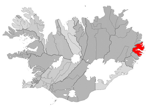 Based on Municipalities of Iceland.png.